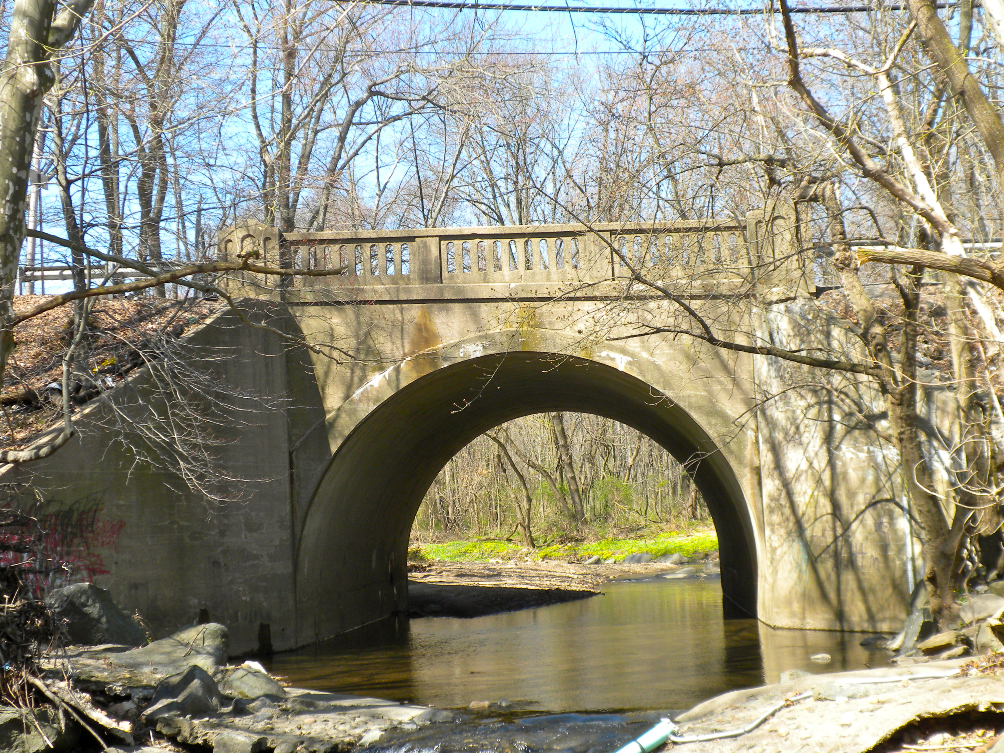 City Line Bridge on US Route 1, just on the border of Philadelphia. On the NRHP.